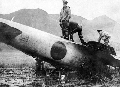 US military personnel inspect a Japanese Zero aircraft piloted by Tadayoshi Koga that crashed on Akutan Island after bombing Dutch Harbor on June 4, 1942. The Zero was later shipped to the US and put into flying condition for intelligence purposes. Koga was killed in the crash.